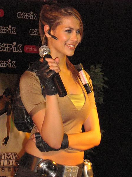 Karima Adebibe as Lara Croft in Poland (Warsaw, 3rd June 2006).